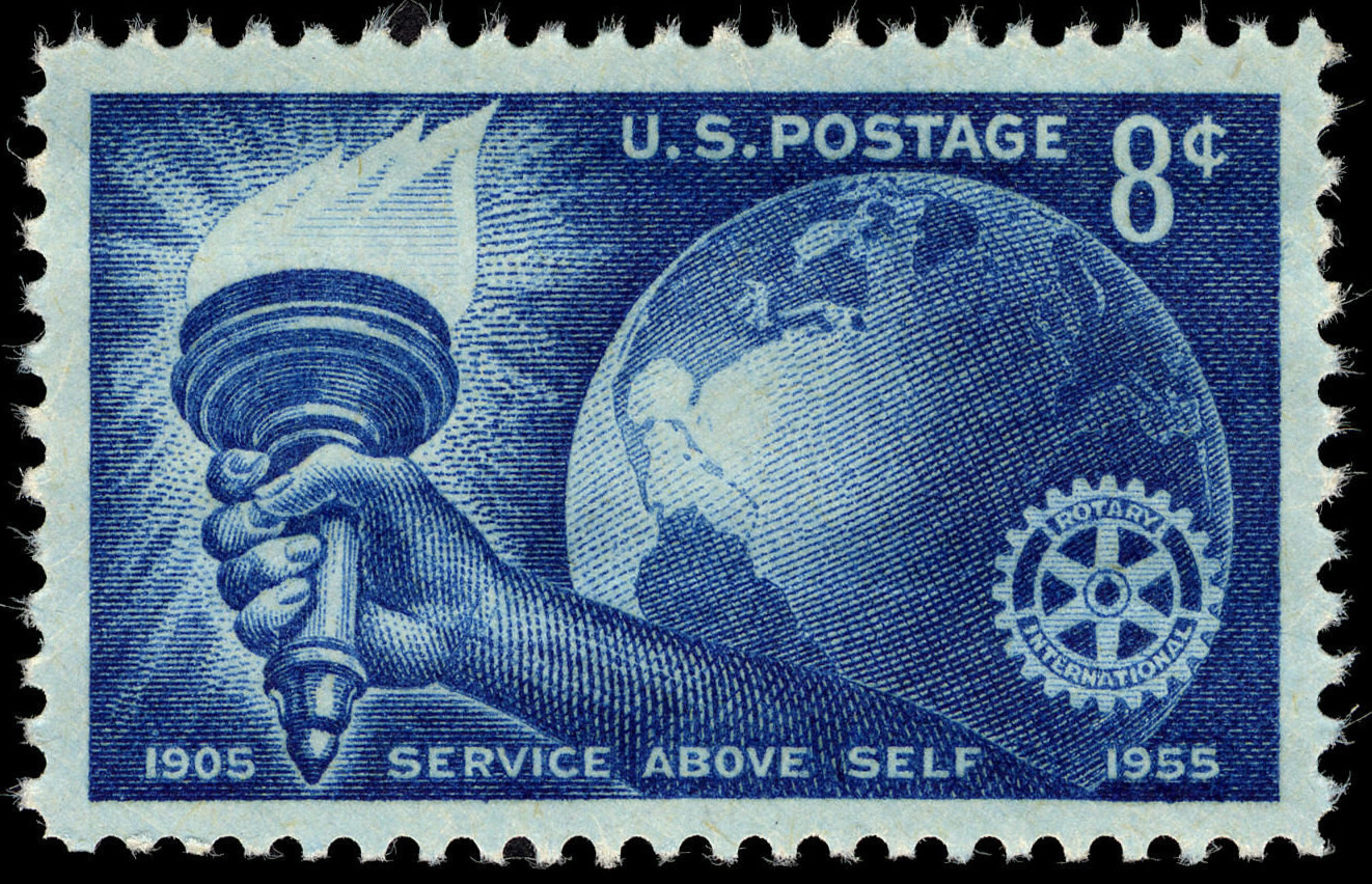 Rotary International 50th Anniversary 8-cent 1955 issue U.S. stamp.